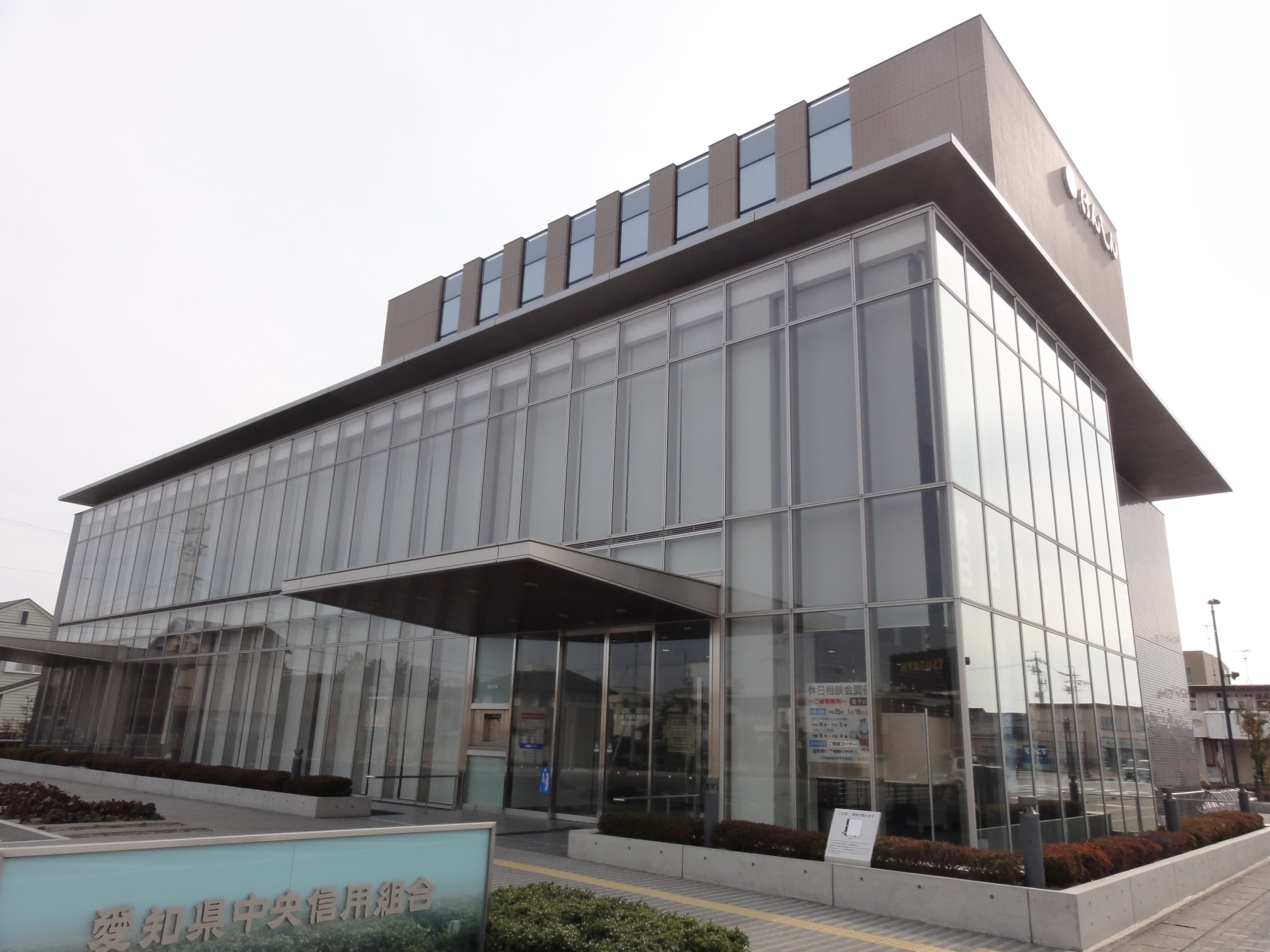 Aichikenchuo Credito cooperative(Head office),Aichi prefecture, Japan